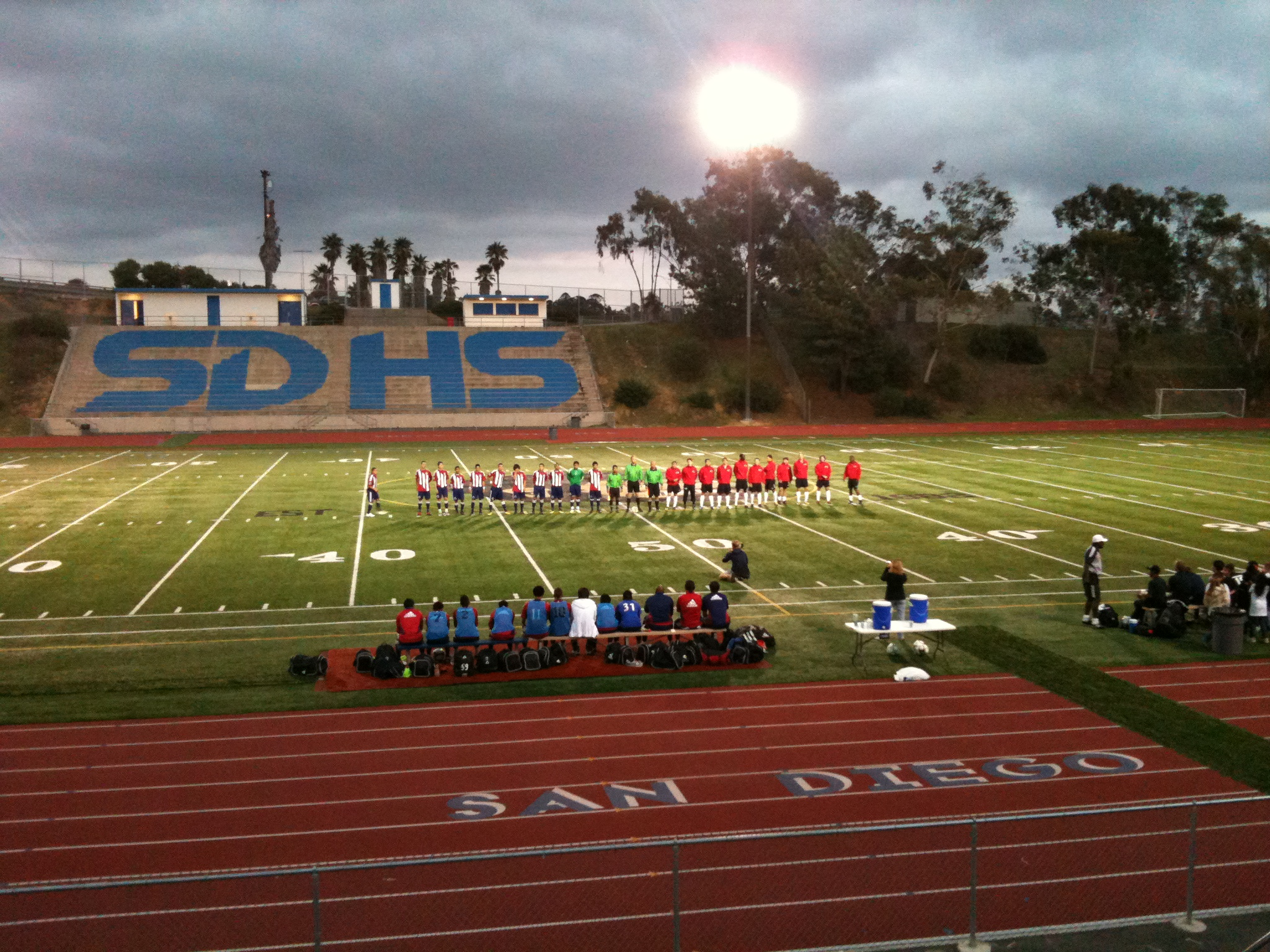 Association football team Chivas USA and San Diego Flash, before played their match at San Diego Stadium.